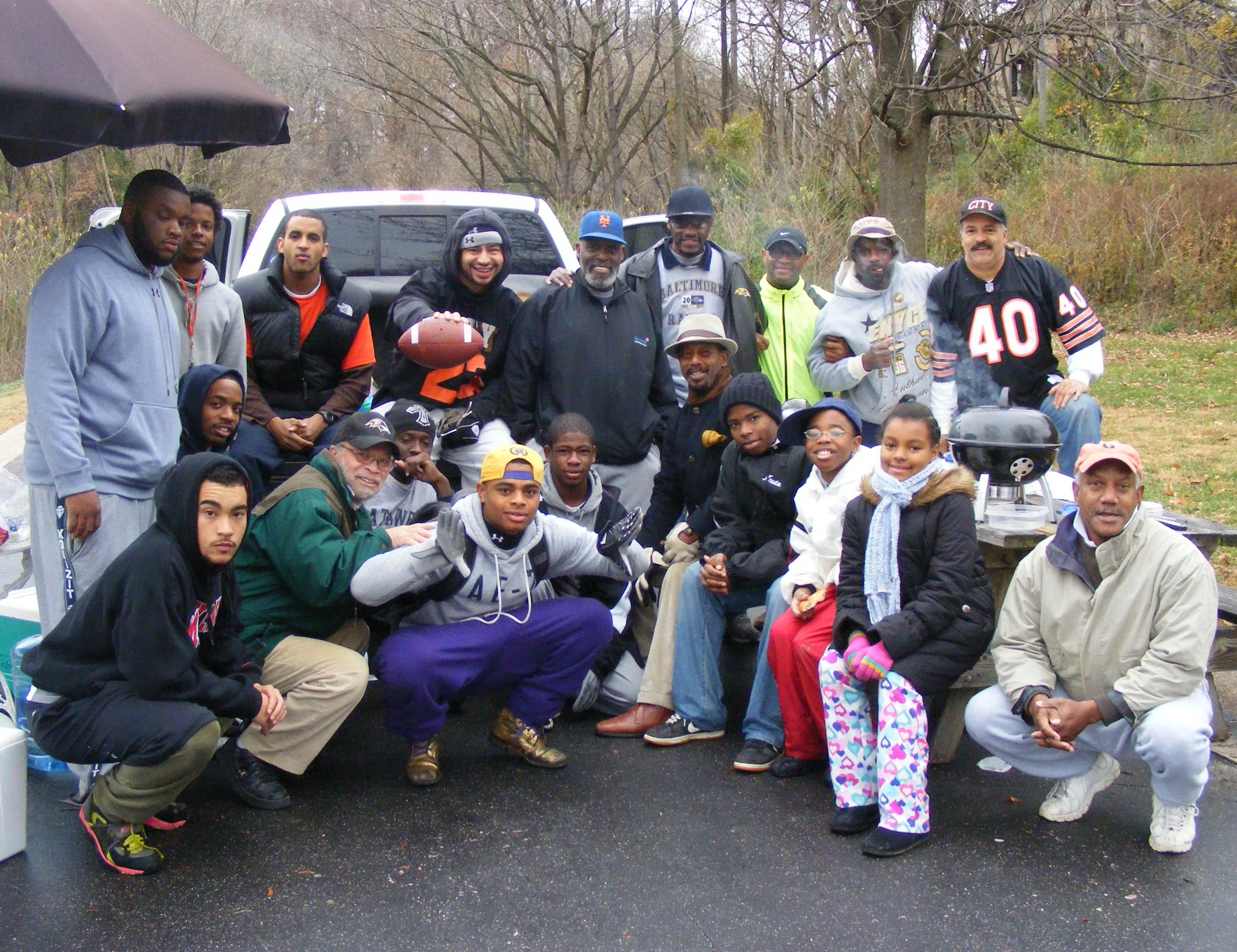 participants in a 2010 Turkey Bowl played Thanksgiving morning in Baltimore's Herring run Park